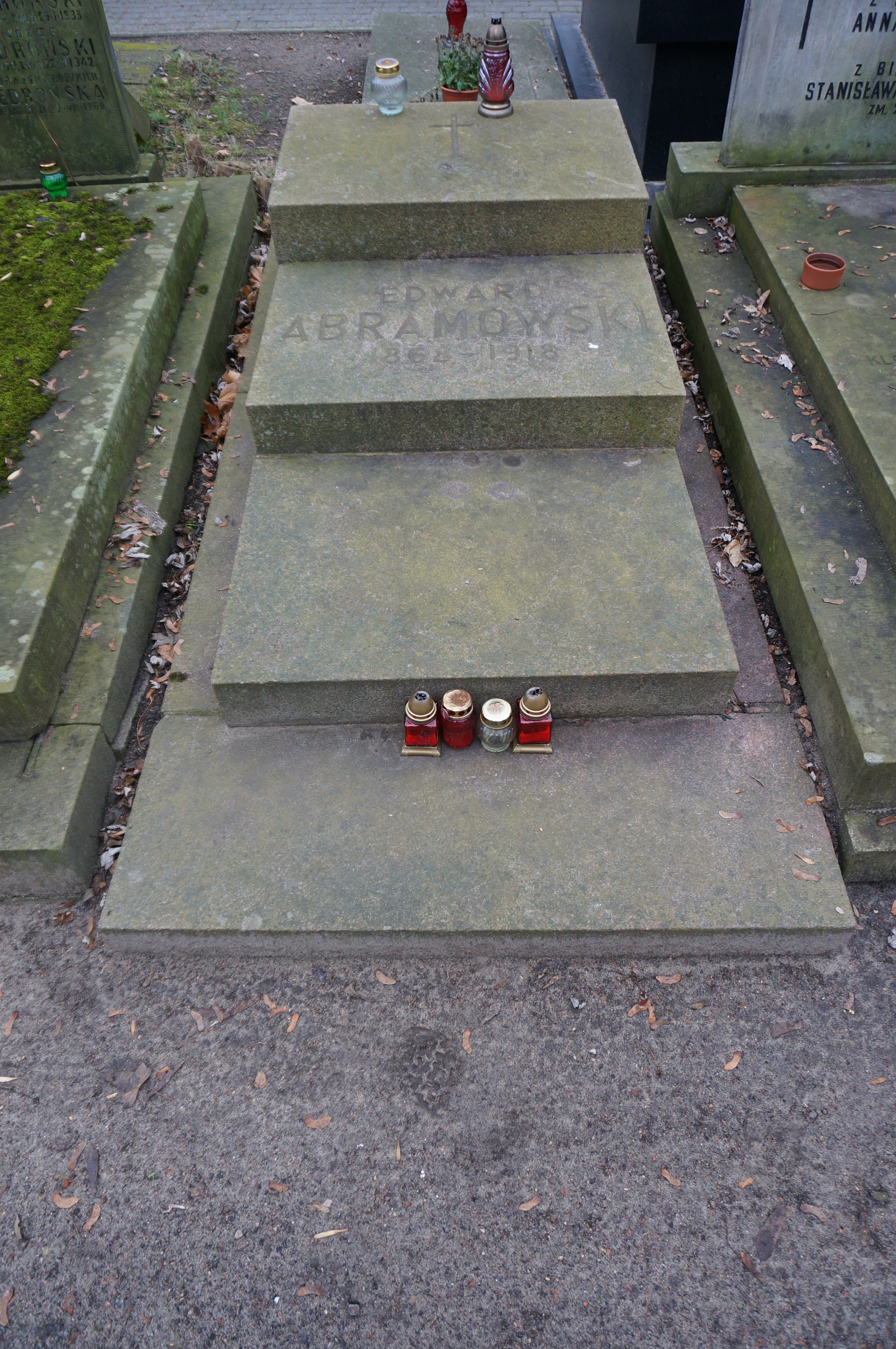 The grave of Edward Abramowski at the Powązki Cemetery (section 65, row 6, grave 24)